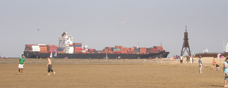 Schiffe in Cuxhaven